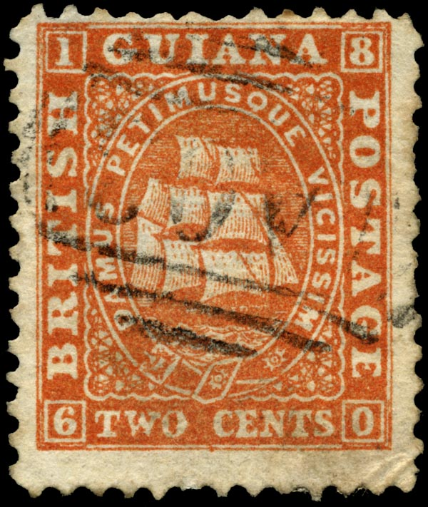 British Guiana 2c stamp of 1860